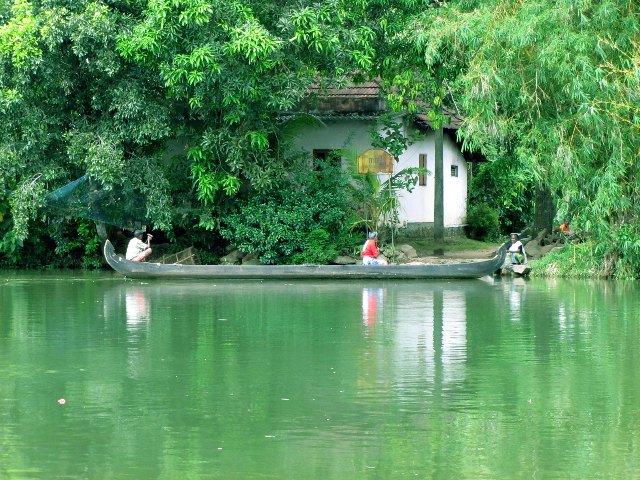 മുട്ടാർ ഗ്രാമത്തിൽ നിന്നൊരു കാഴ്ച